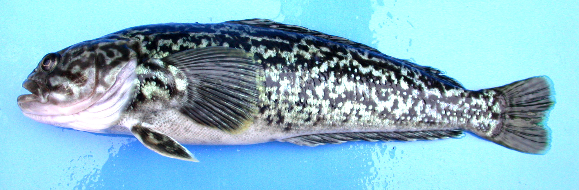 Notothenia rossii